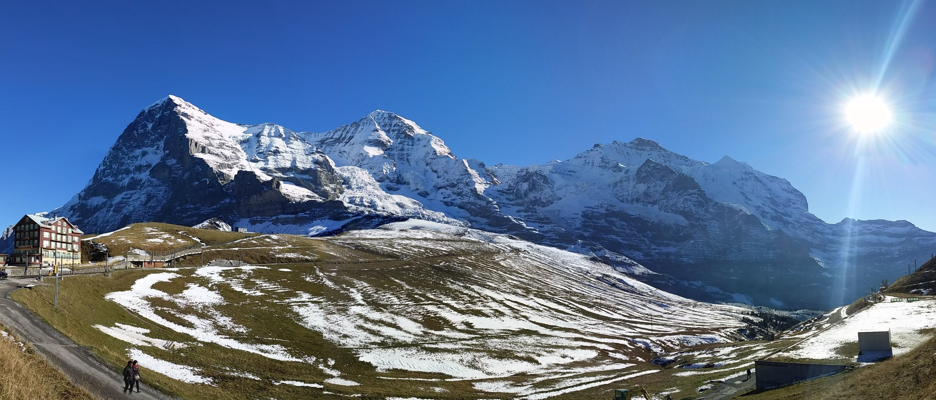 Eiger, Mönch, and Jungfrau Trio, Switzerland